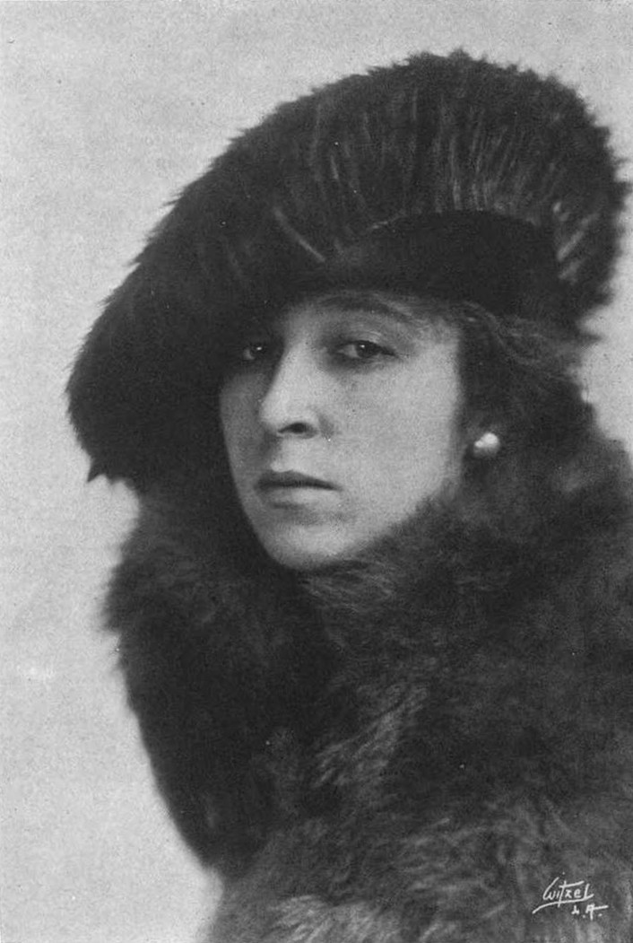 Portrait of Edith Storey